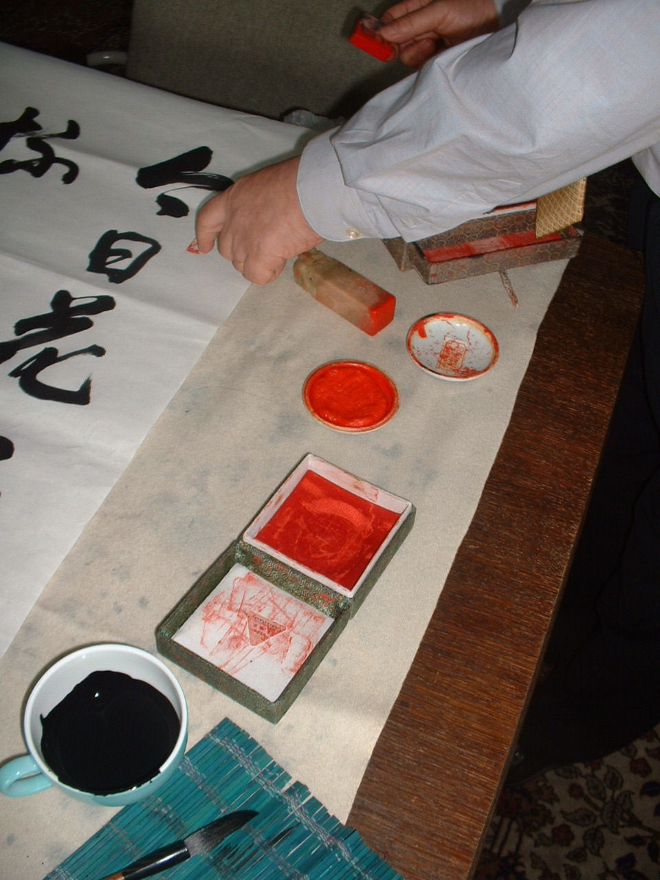 seal of the Chinese calligrapher Sun Xinde